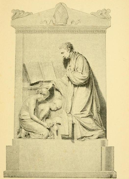 Depiction of a monument to Reginald Heber (1773–1826), Bishop of Calcutta 1823-1826, erected in Madras (Chennai) after his death.